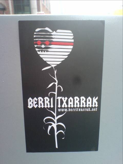 Berri Txarrak poster